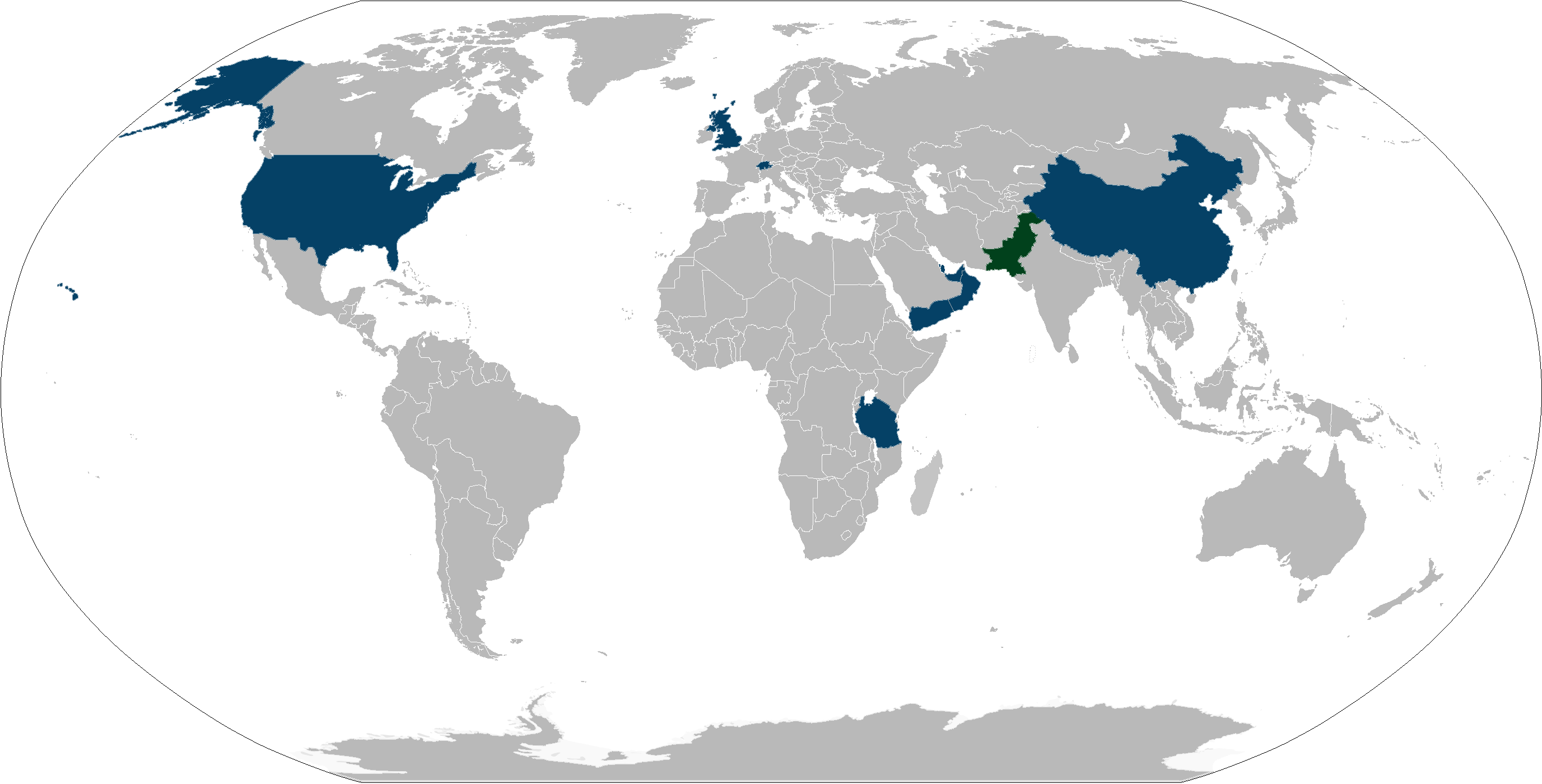 Map depicting worldwide operations of United Bank (Pakistan). Highlighted countries have branches, subsidiaries and/or representative offices of the bank. Pakistan is highlighted in dark green for reference.